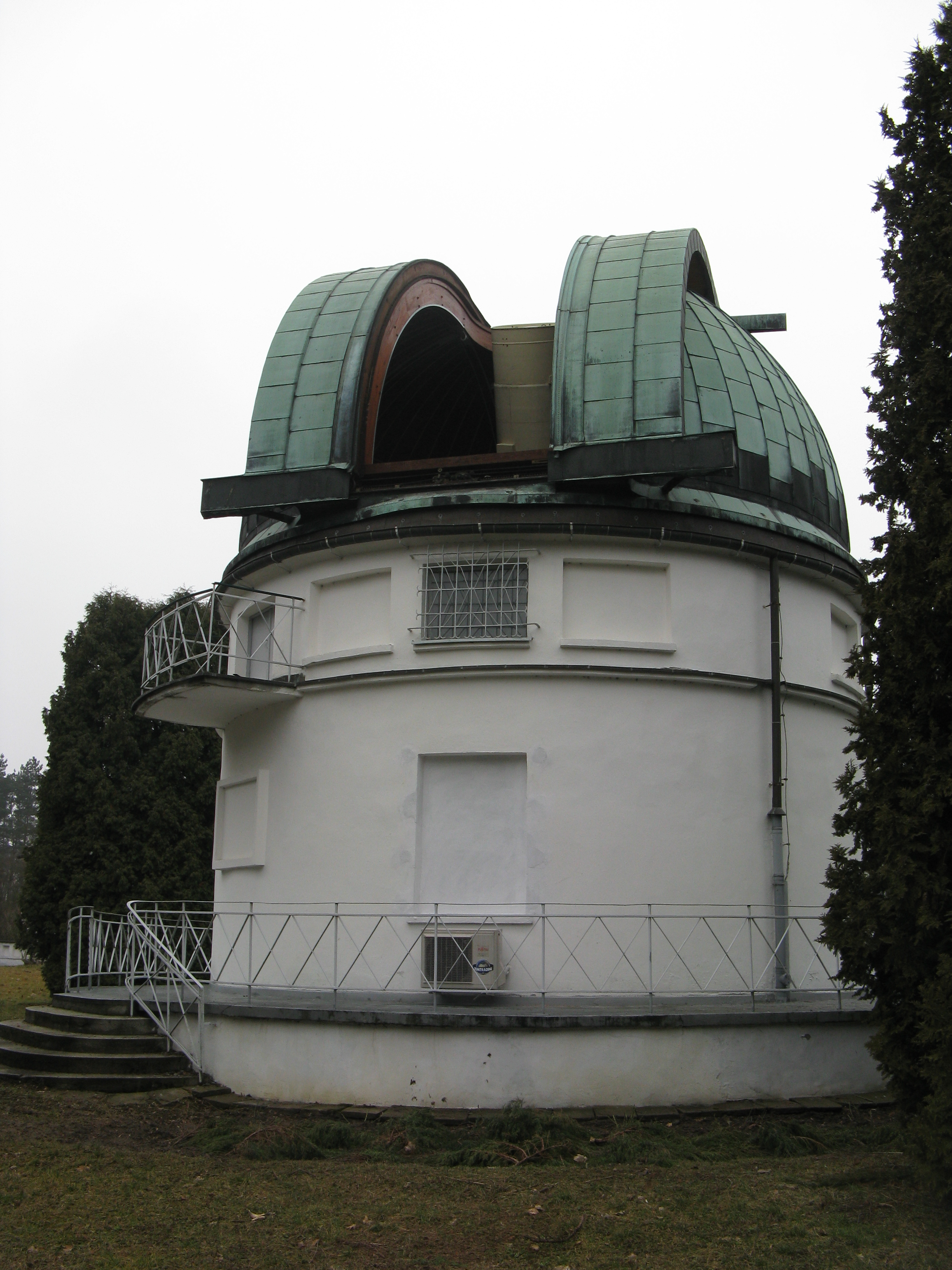 Schmidt-Cassegrain telescope in Piwnice